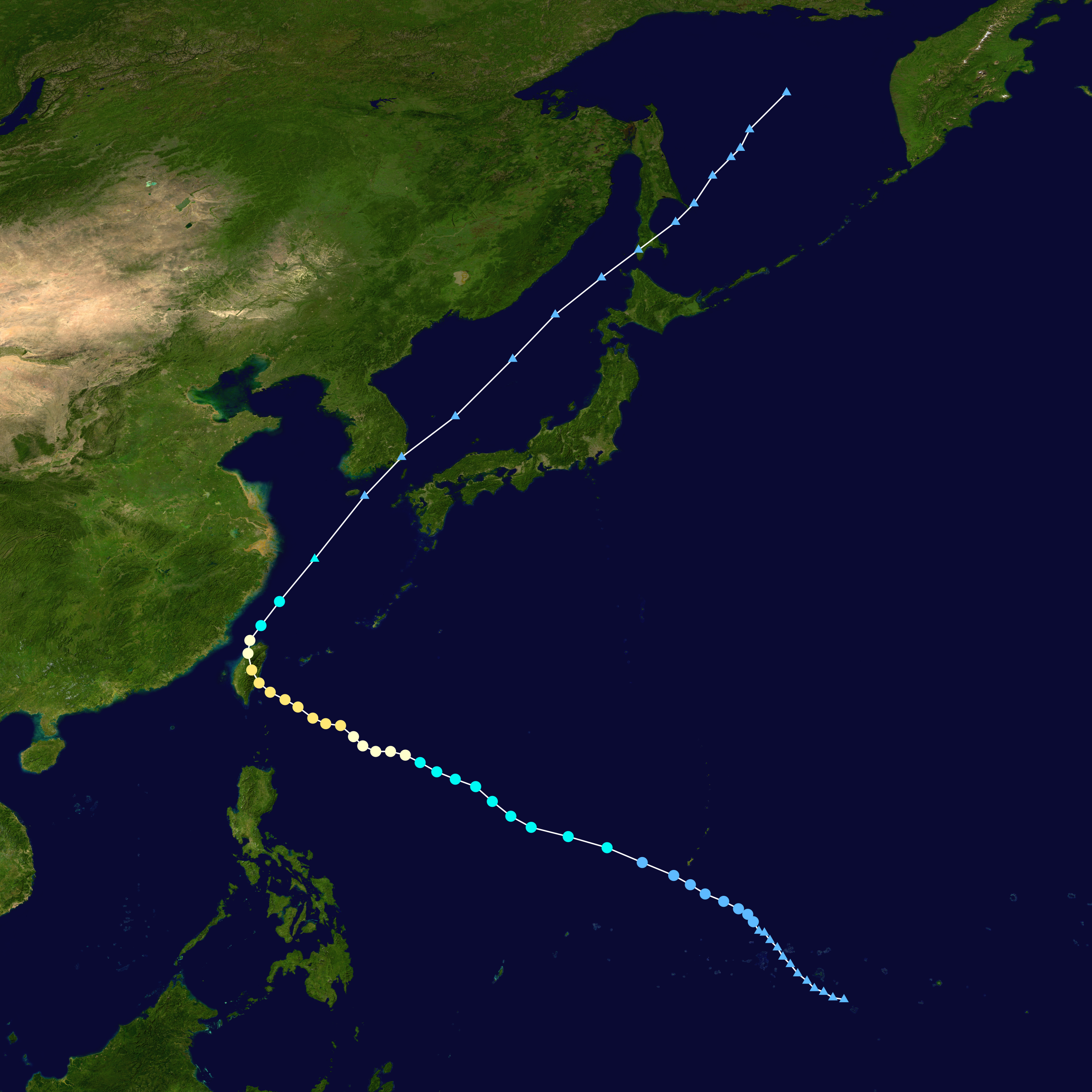 Typhoon Abby 1986 track. Uses the color scheme from the Saffir-Simpson Hurricane Scale.